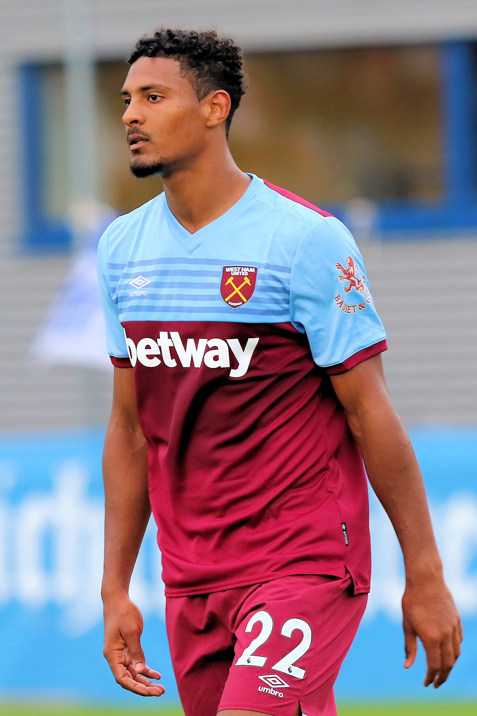 Friendly match Hertha BSC (blue-white shirts) vs. West Ham United (red-blue shirts) at 31-07-2019 3-5 (3-2) in the Sonnenseestadium in Ritzing. – The photo shows Sébastien Haller (West Ham United).